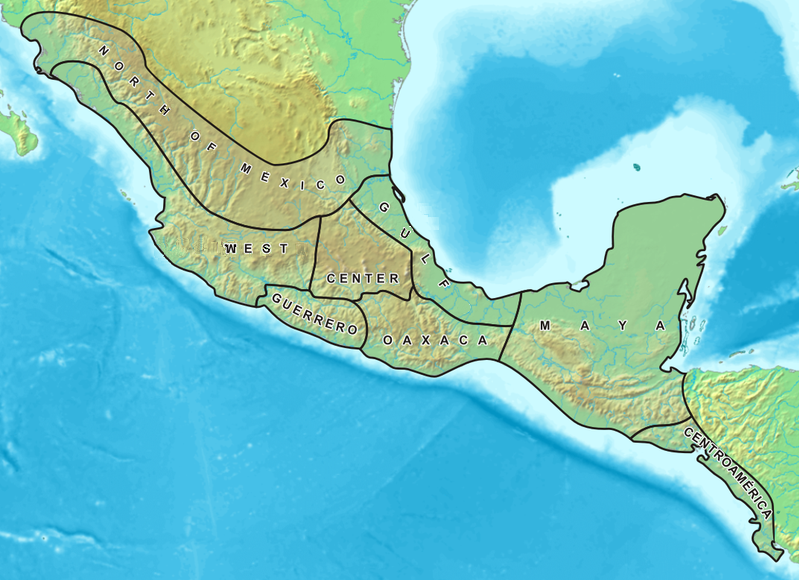 Original version is Image:Mesoamérica.png. Spanish names have been translated to English so that image can appear in the English Wikipedia